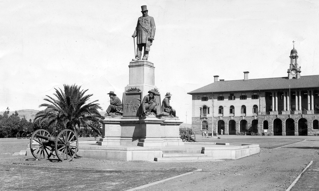 Kruger statue Outside Pretoria Railway Station